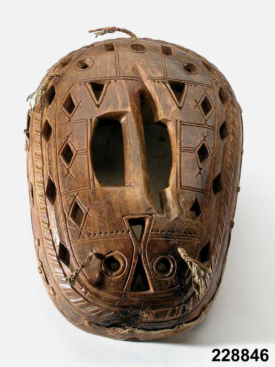 Sami drum, probably from Lule Lappmark. Bowl drum. 40 x 27 cm. Described and depicted by Johannes Schefferus in his book Lapponia (1671); later described as No 64 in Ernst Manker's Die lappische Zaubertrommel (1938). Schefferus says that it belonged to chancellor Magnus Gabriel de la Gardie; later in 1693 in Antikvitetskollegium. Statens Historiska Museum, Stockholm (SHM 360:2) Now at Nordiska museet, Stockholm